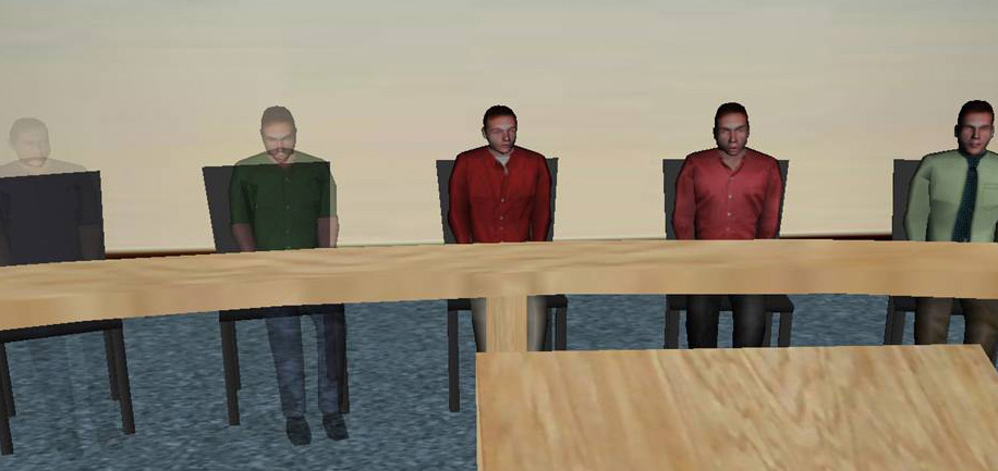 Screenshot of custom-made virtual environment using the software Vizard.